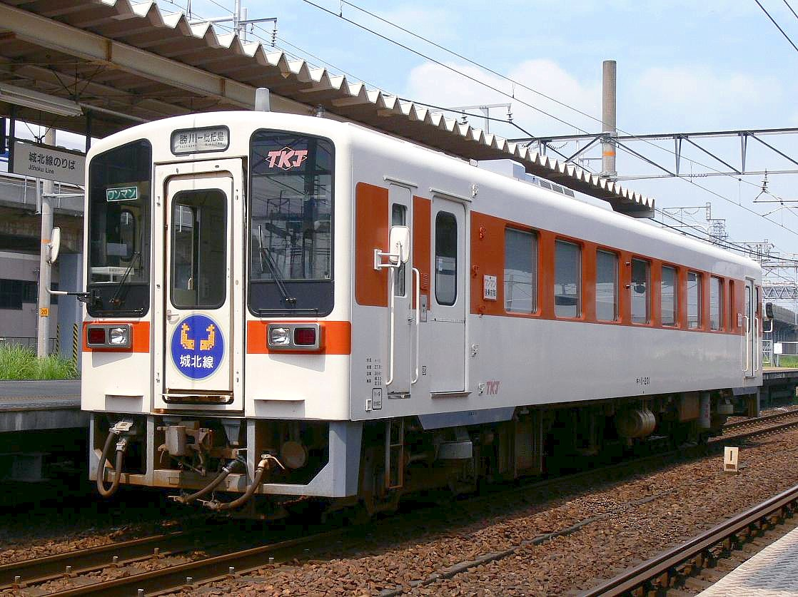 Tokai Transport Service KiHa 11-200 diesel car KiHa 11-201 at Biwajima Station on the Jōhoku Line